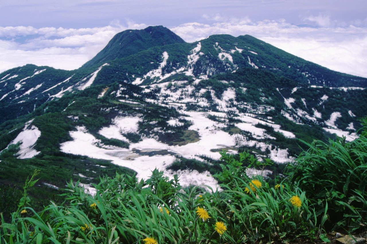 Myokousan_from_hiutiyama